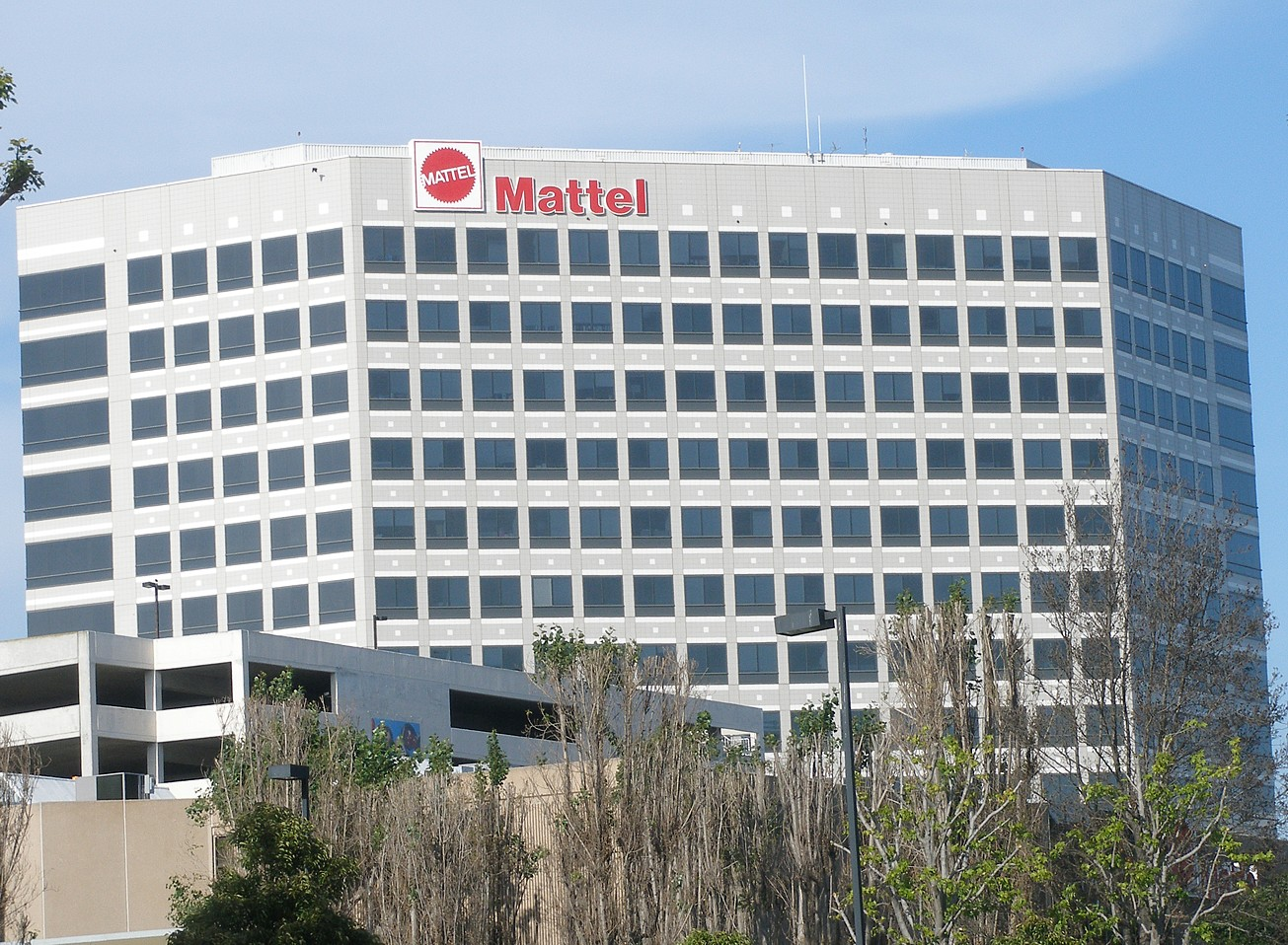 The headquarters of Mattel in El Segundo, California. Photographed on April 21, en:2007 by user Coolcaesar.